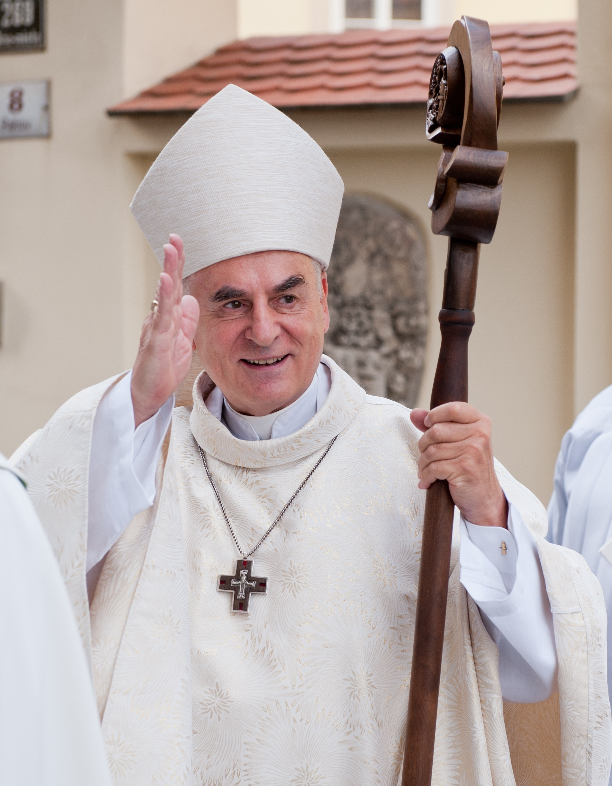 Den Brna